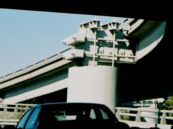 Steel reenforcements with through bolts over existing concrete, part of a seismic retrofit. Image Sept 8, 2004, by User:Leonard G..